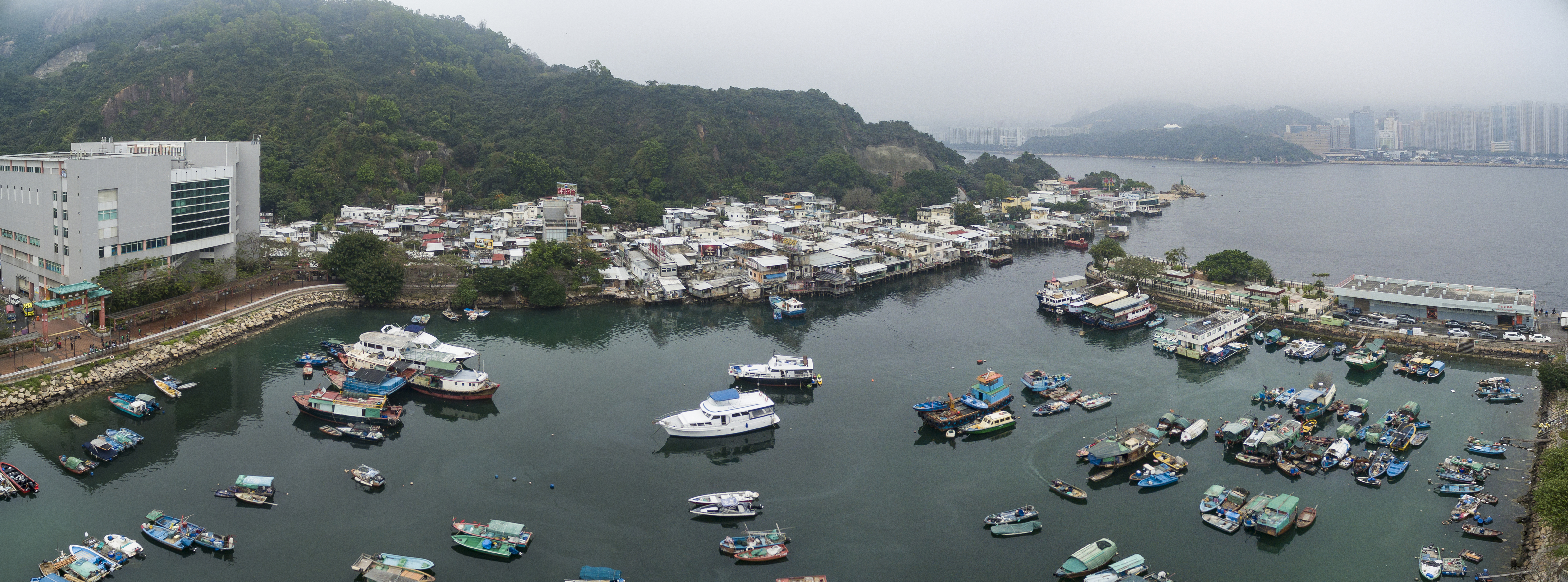 aerial panorama lei yue mun kowloon hong kong 2016 phantom 3